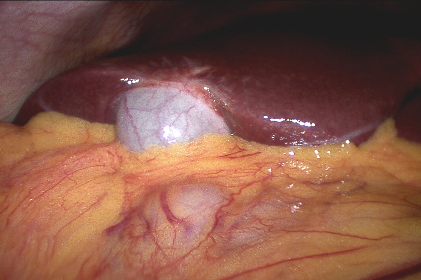 Gall bladder in laparoscopy